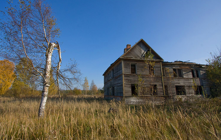 Abandoned houses in abandoned Rabochy Poselok No.3 settlement, Leningrad oblast, Russia.